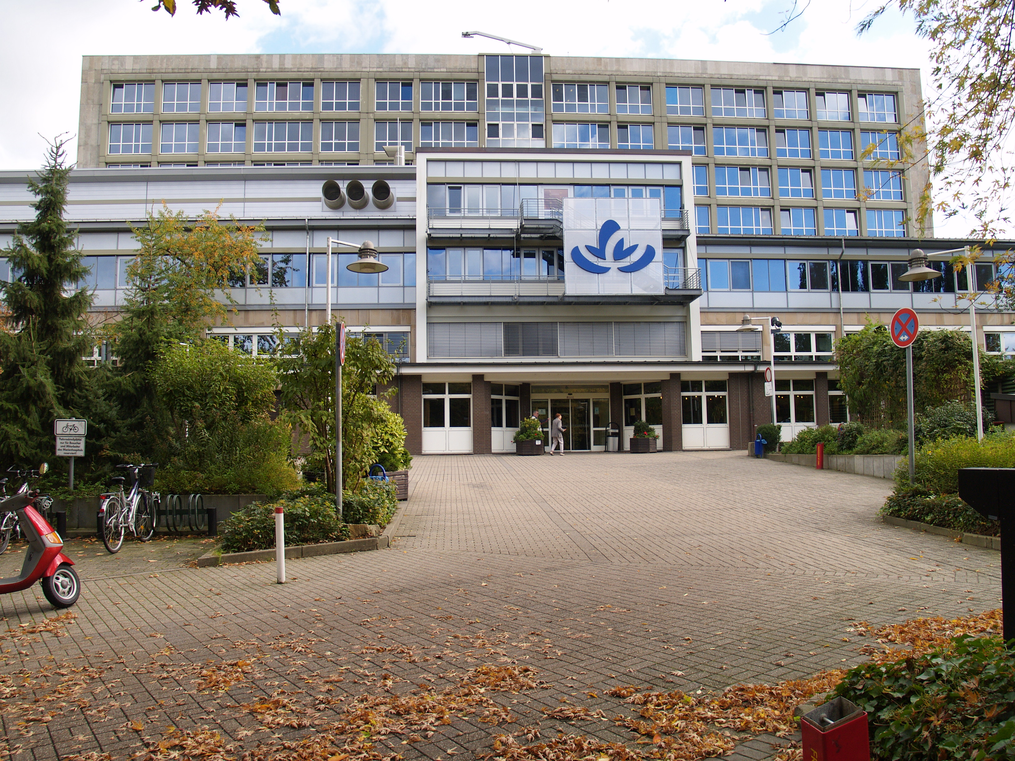 The Hospital 'Marienhospital' at Herne, entrance at west side